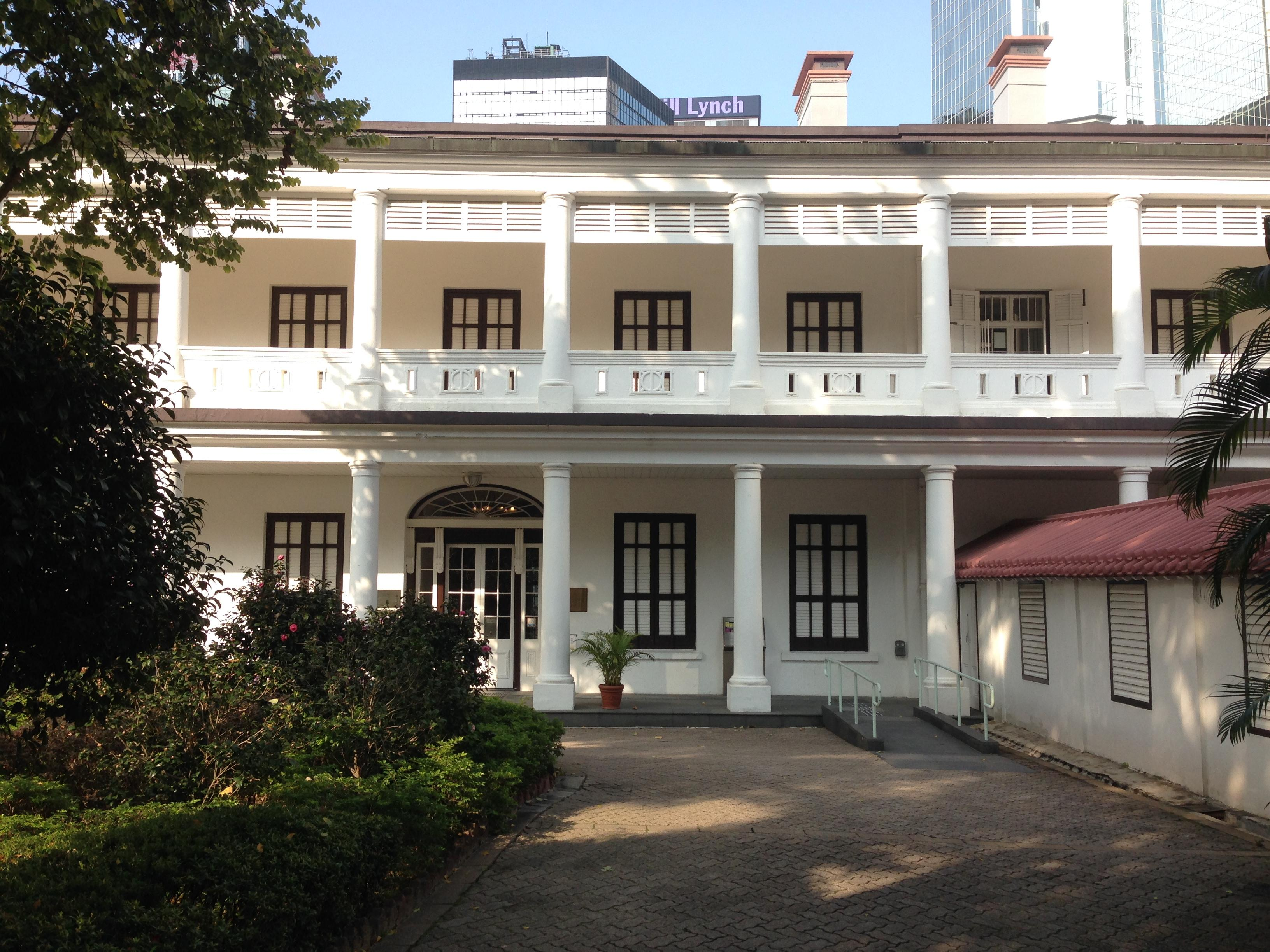 Flagstaff House